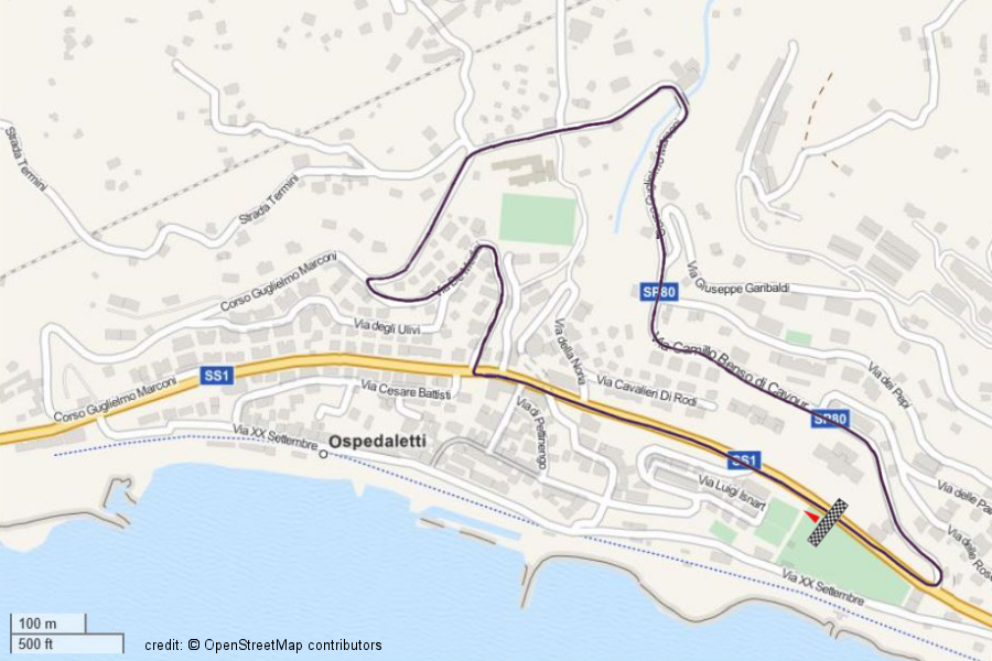 Grand Prix Circuit - Ospedaletti-1947 (openstreetmaps)